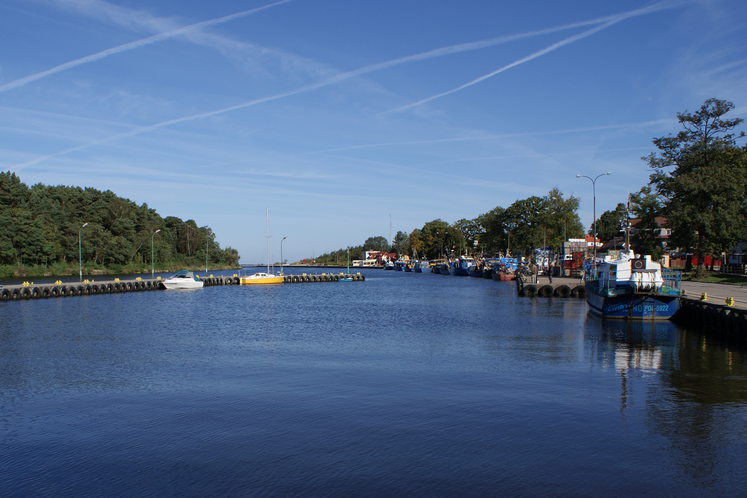 Port of Mrzeżyno from the South Wharf